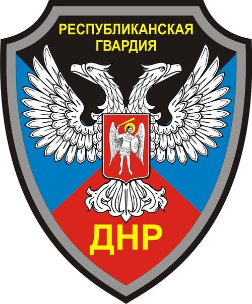 Shoulder sleeve insignia of the DPR Republican Guard, as of 2015.